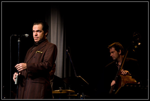 Kurt Elling and bassist Rob Amster with the Kurt Elling quartet, live at the Blue Note in Milan